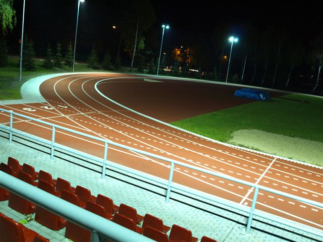 sdgsasd